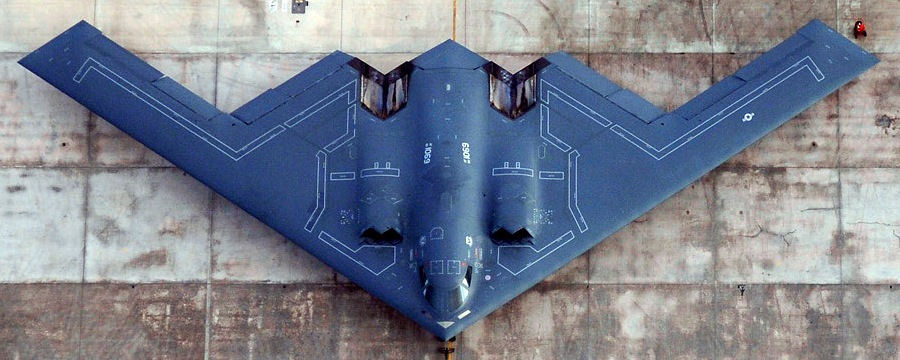 Joint training at Valiant Shield An F-18 Hornet (left), B-2 Spirit (center), and two F-16 Fighting Falcons (right) sit on the flightline at Andersen Air Force Base, Guam, for Exercise Valiant Shield on Thursday, June 22, 2006. The exercise, which concludes June 23, 2006, focuses on integrated joint training in a variety of mission scenarios. (U.S. Air Force photo/Staff Sgt. Bennie J. Davis III)